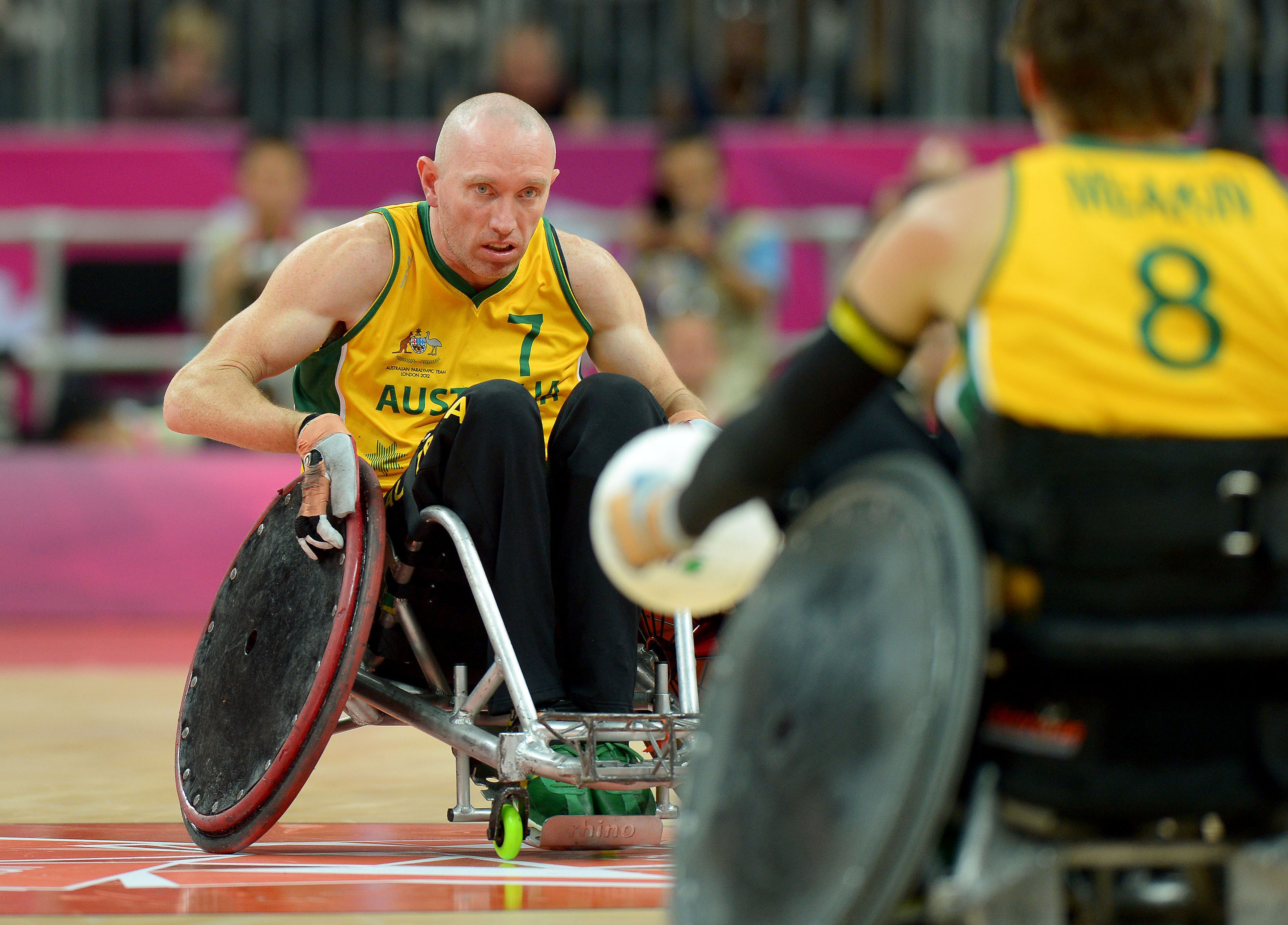 Photograph of Australian Paralympic team member Jason Lees at the 2012 Summer Paralympic Games in London